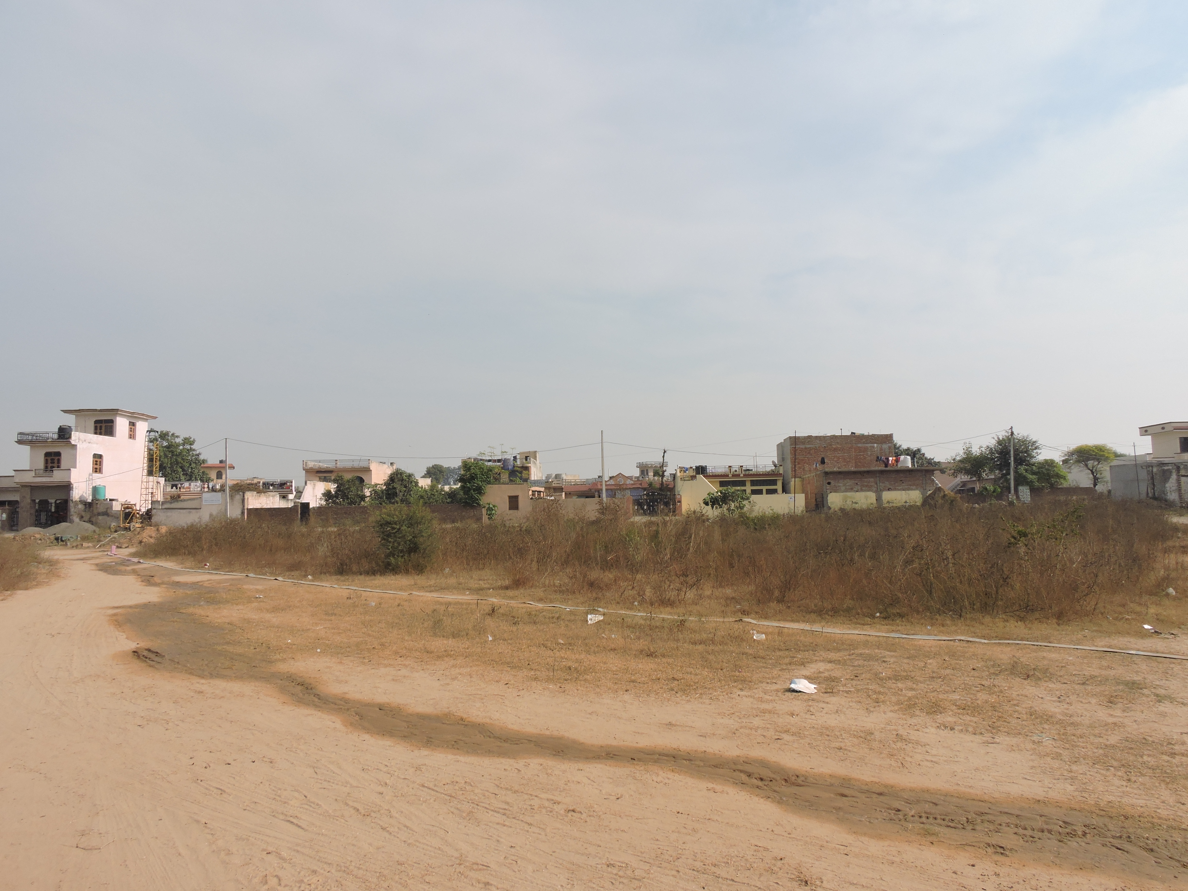 Village Tadauli , SAS Nagar , (Mohali) Punjab, India